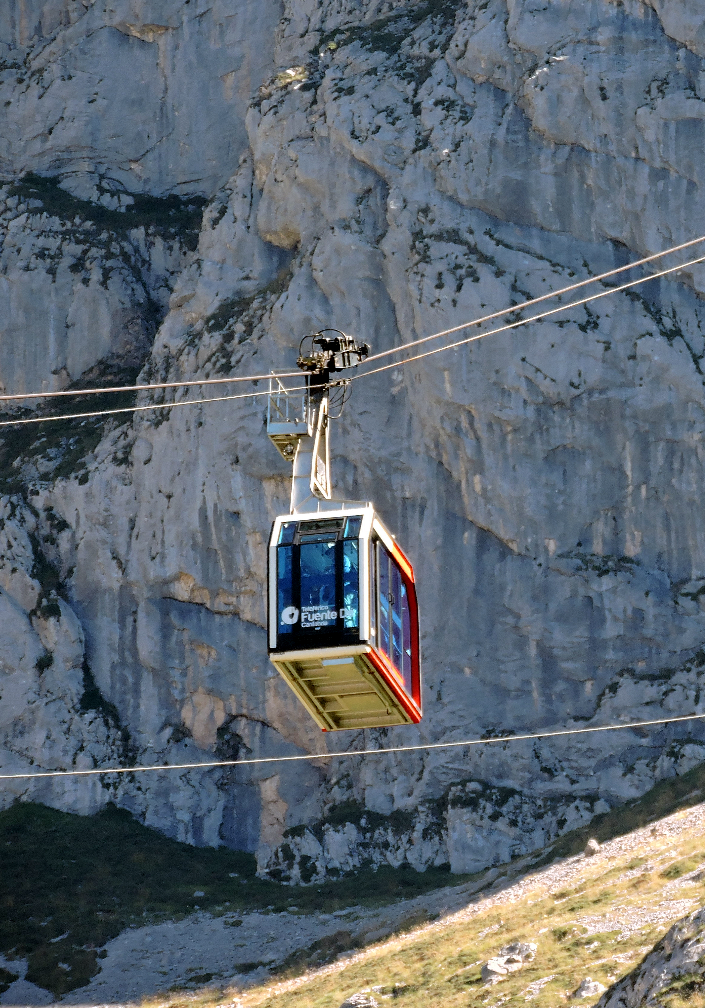 Teleférico de Fuente Dé: cabin